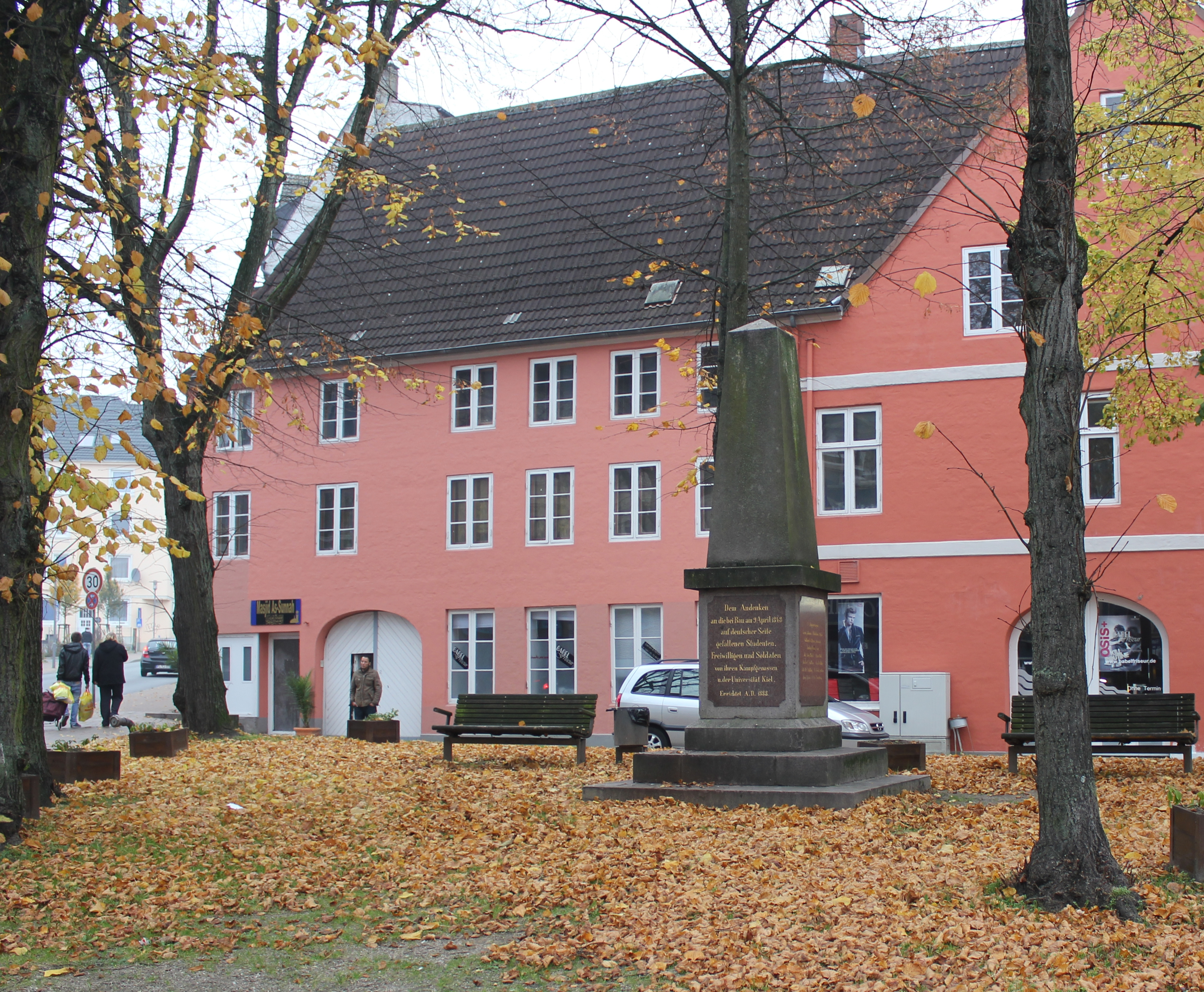 Memorial Site to the Battle of Bau (in Flensburg -- Neustadt)